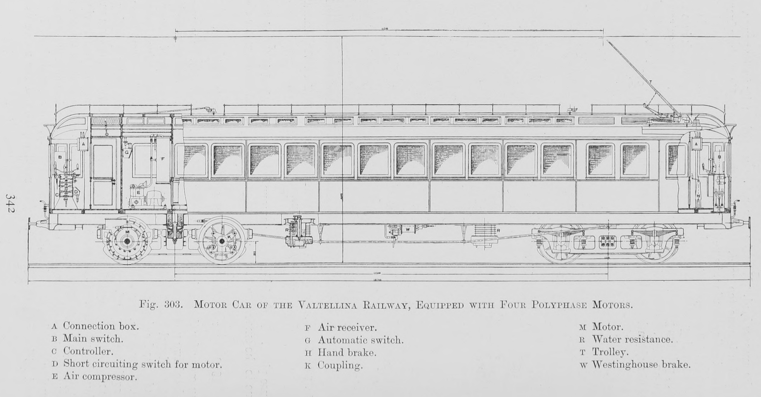 see image title - first number is figure or diagram number. See list of illustrations in source for page number in source - relevent text content is near to image in the source